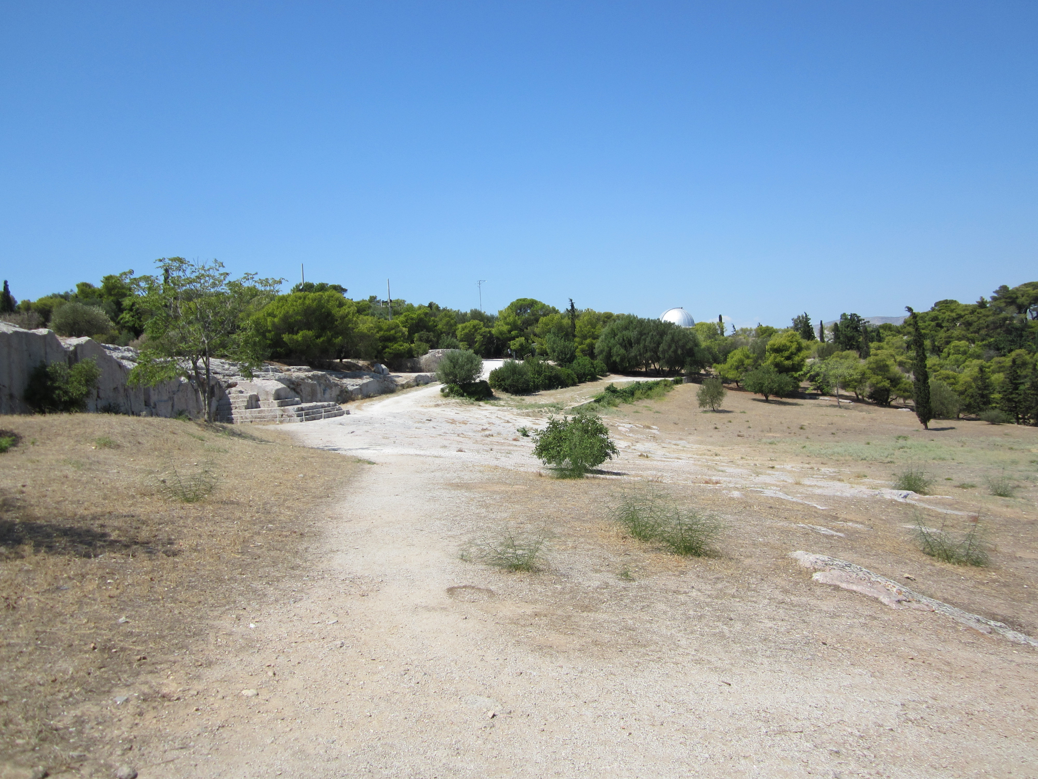 Pnyx, Athens, Greece.